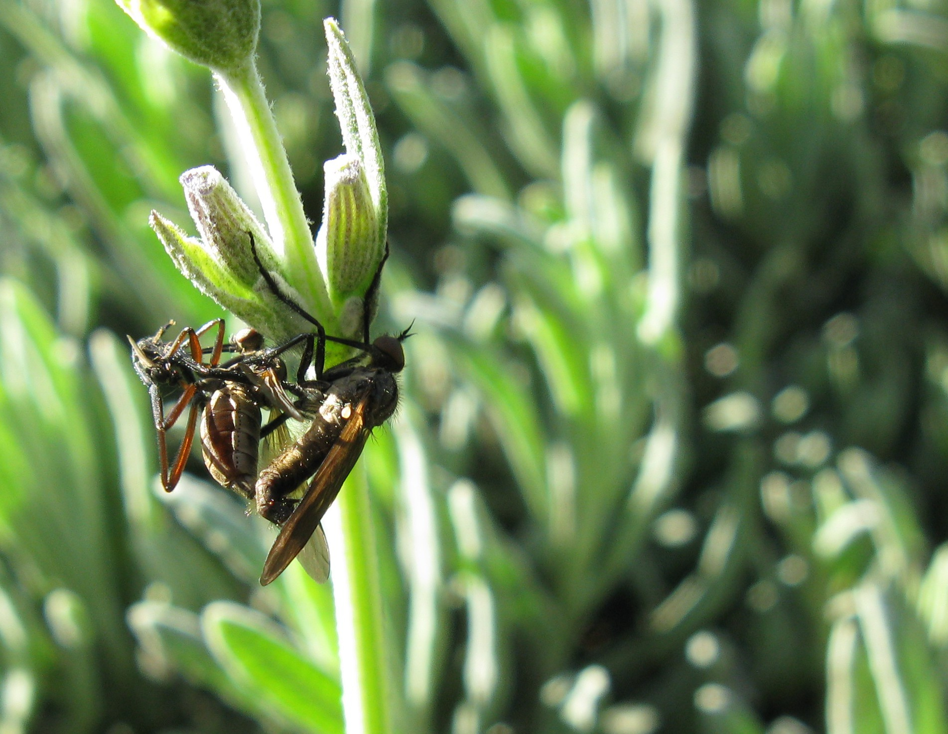 Empididae Probably Coptophlebia bivittata. (More properly Empis, rather than Coptophlebia, which is the subgenus.) Dance flies mating. The female is holding with all 6 feet onto a small fly supplied by the male. Photo taken near Somerset West, South Africa.